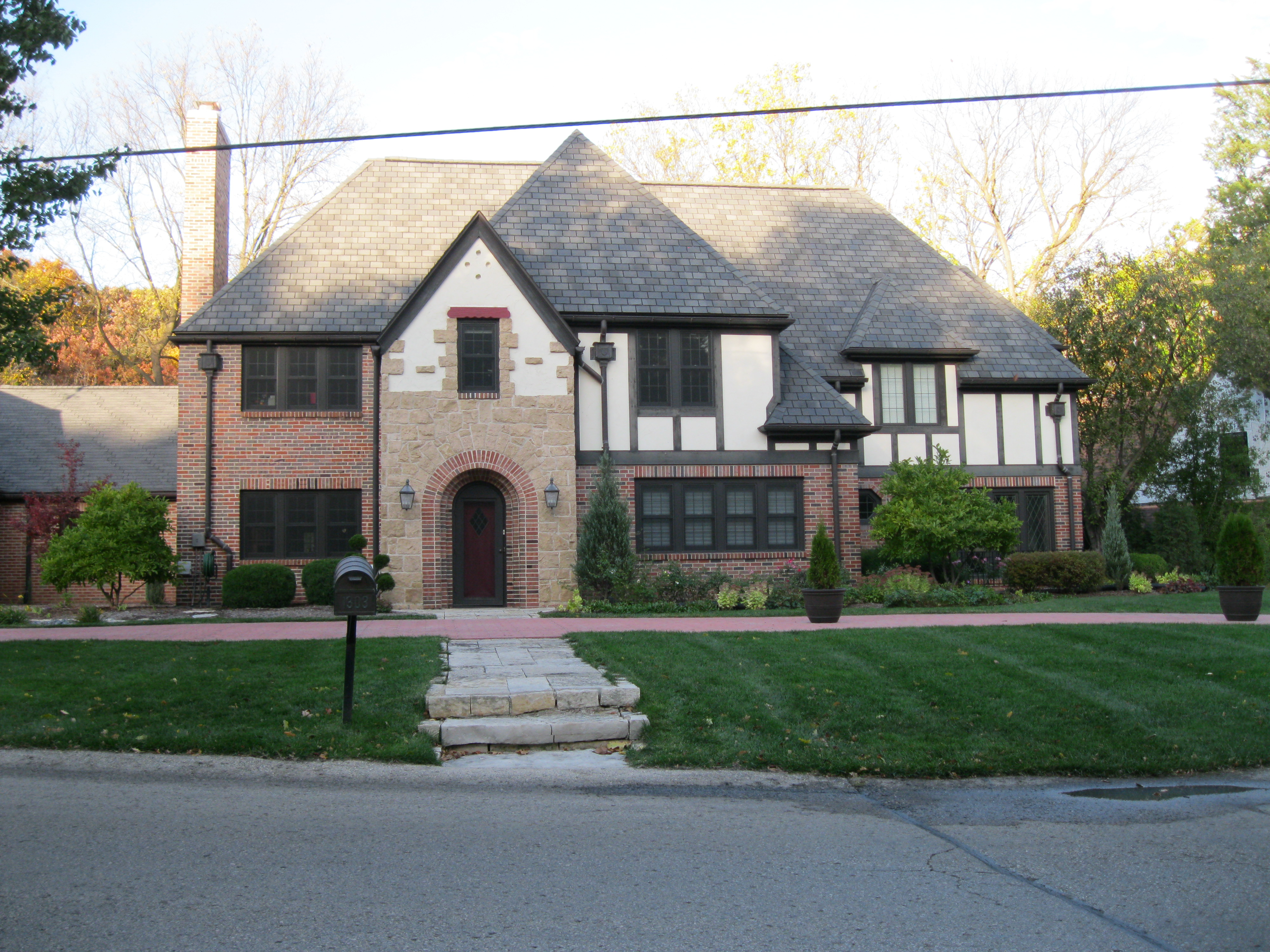 1303 Edgehill Drive in the Shorewood Historic District in Shorewood Hills, Wisconsin.